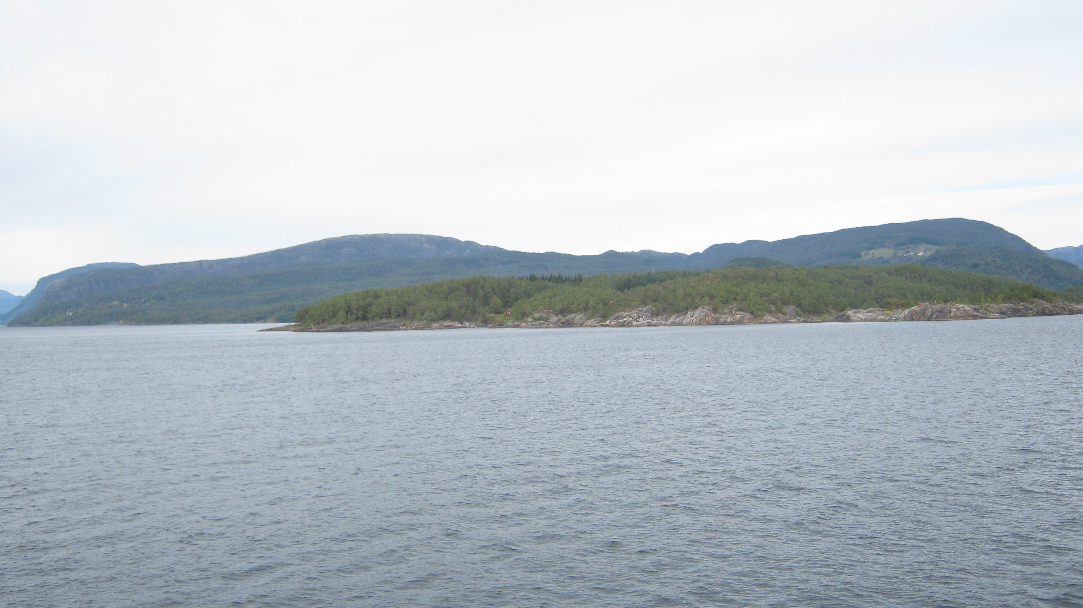 Varaldsøy, Kvinnherad, Hordaland, Norway, seen from the southNorsk nynorsk: Varaldsøy, Kvinnherad, Hordaland, sett frå sør